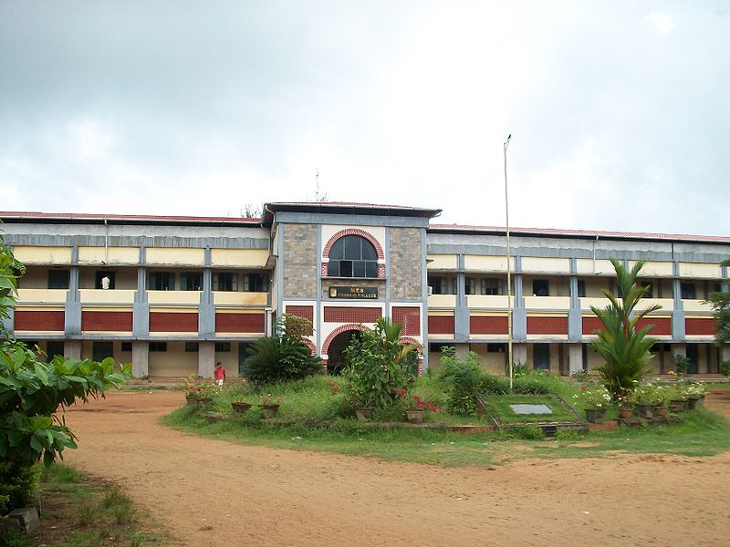 Picture of MES Ponnani college, Ponnani